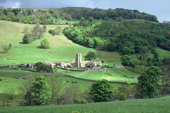 Marrick Priory, beside the River Swale, east of Reeth, in Swaledale, North Yorkshire. Little remains of the original Benedictine nunnery (founded circa 1154, possibly originally a Cistercian establishment), apart from the church tower and some fragmentary walls, now surrounded by farm buildings. Some of the buildings are used as a residential outdoor education centre.